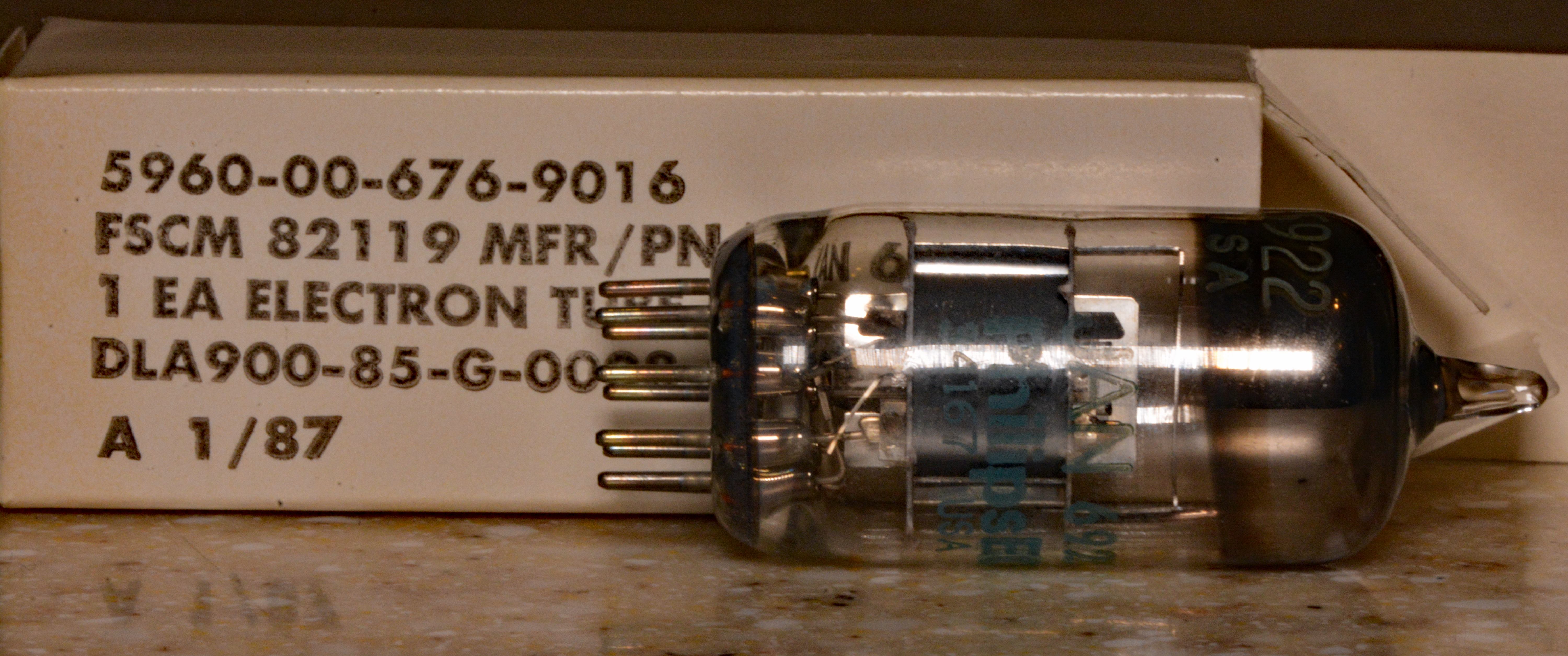 A Philips JAN 6922 vacuum tube, with box